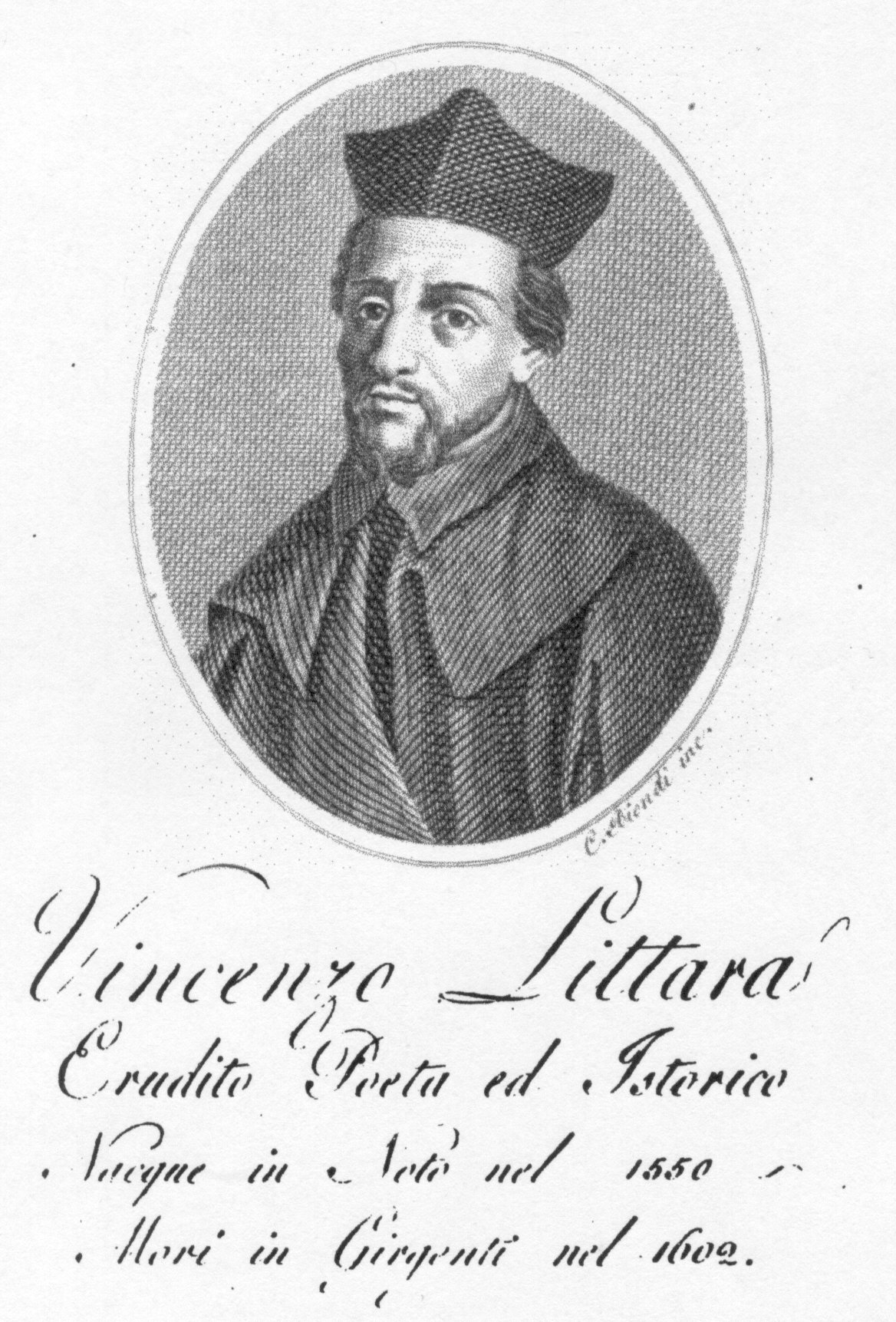 Vincenzo Littara (1550-1602)